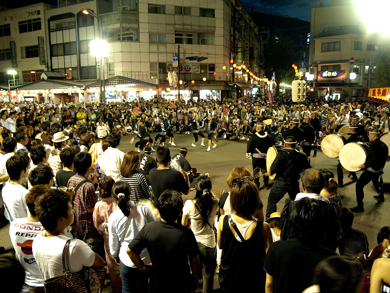 Awa-odori (a folk dance festival in Japan) near Ryogoku bridge in Tokushima city, Japan